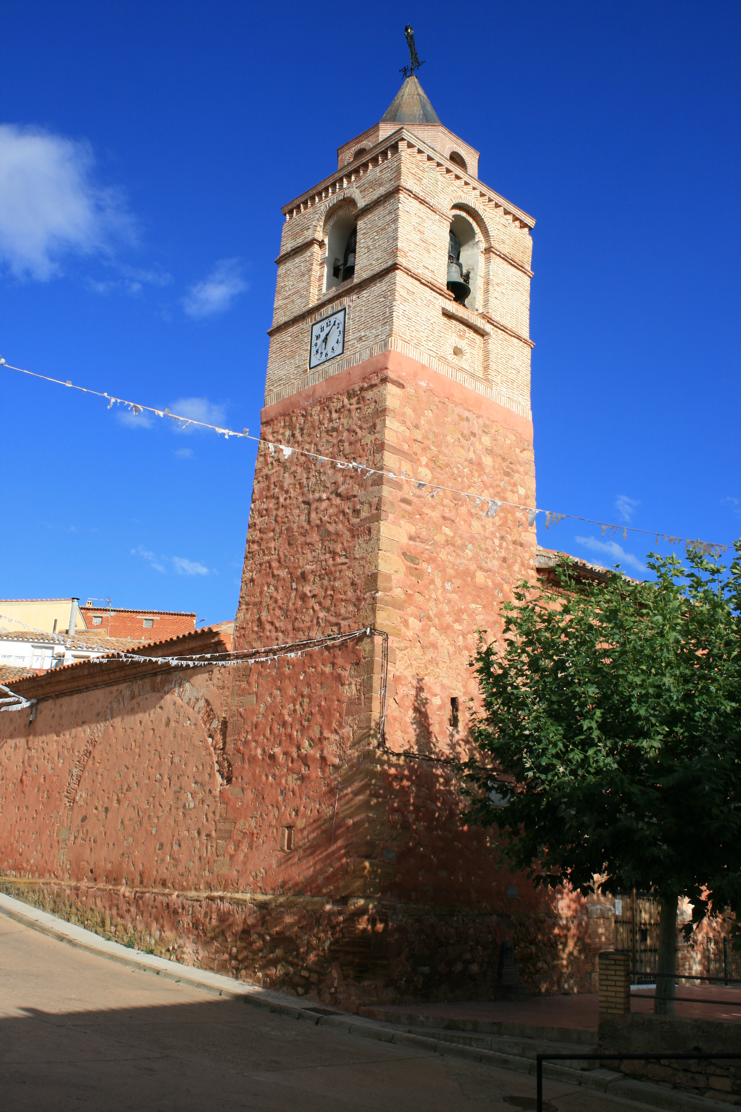 Church of St Bartolomé, Castejón de Alarba, Zaragoza, Spain